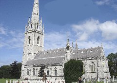 St Margaret's Church, Bodelwyddan, Denbighshire, Wales - commonly called the "Marble Church" Self made, released under GFDL